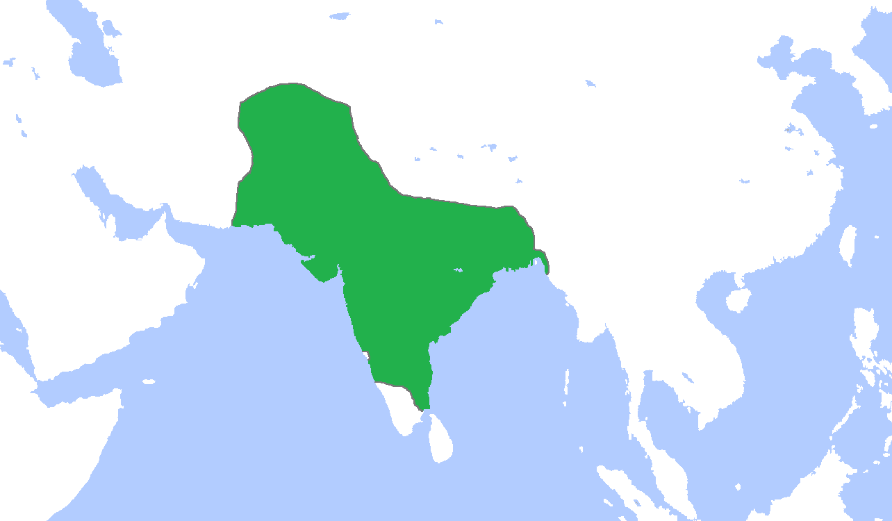 Locator map of the Mughal Empire, c. 1700. (Partially based on Atlas of World History (2007) - The World 1600-1700, map)